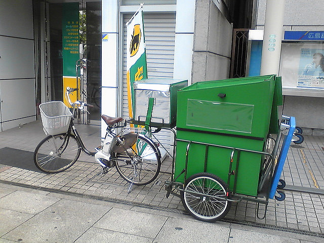 A Yamato Transport electric-assisted bicycle and rearcar trailer in Japan.